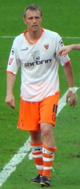 Brett Ormerod, cropped from Blackpool vs Cardiff corner